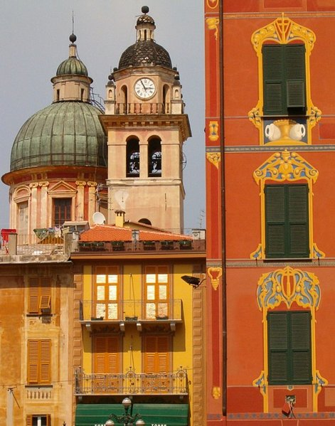 Historical center of Chiavari Picture taken by user Idéfix, summer 2003